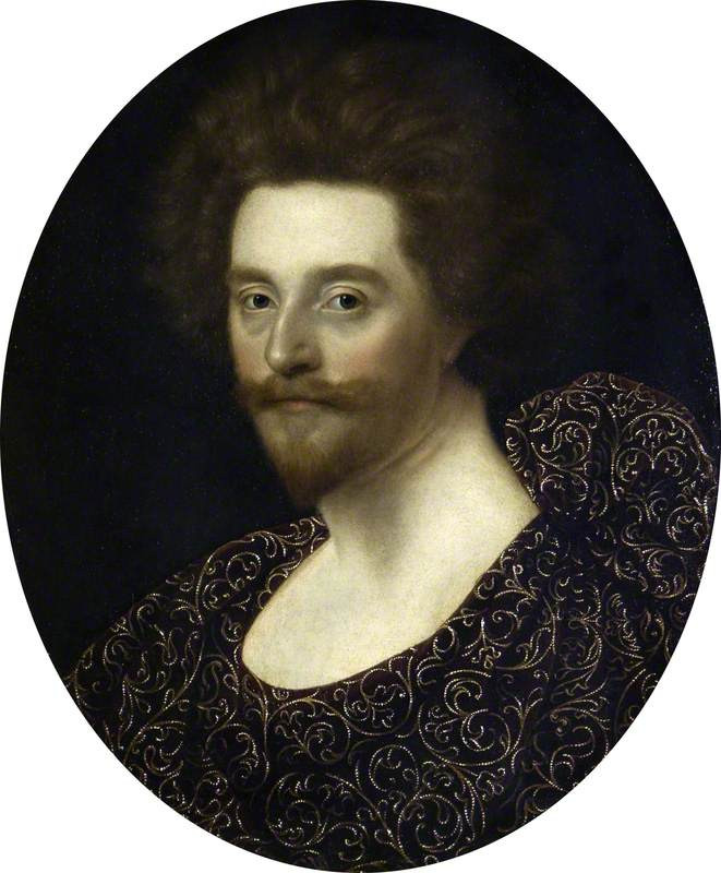 Sir Thomas Lucy III (1585–1640), MP by William Larkin National Trust, Charlecote Park; Supplied by The Public Catalogue Foundation